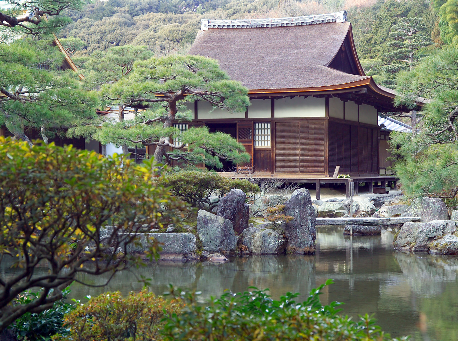 This building is the Tōgu-dō (東求堂) at Ginkakuji (Jisho-ji), a Buddhist temple in Kyoto, Japan. I took this photo and contribute my rights in the file to the public domain; individuals and organizations retain rights to images in the file. National Treasure.